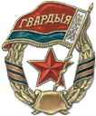 Belarusian Guard unit Badge